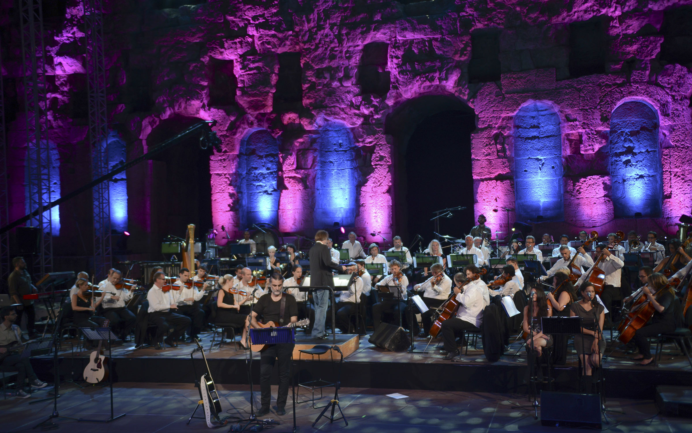 Prague Philharmonic Orchestra with Filippos Pliatsikas performing at the Odeon Herodes Atticus in Athens in 2014